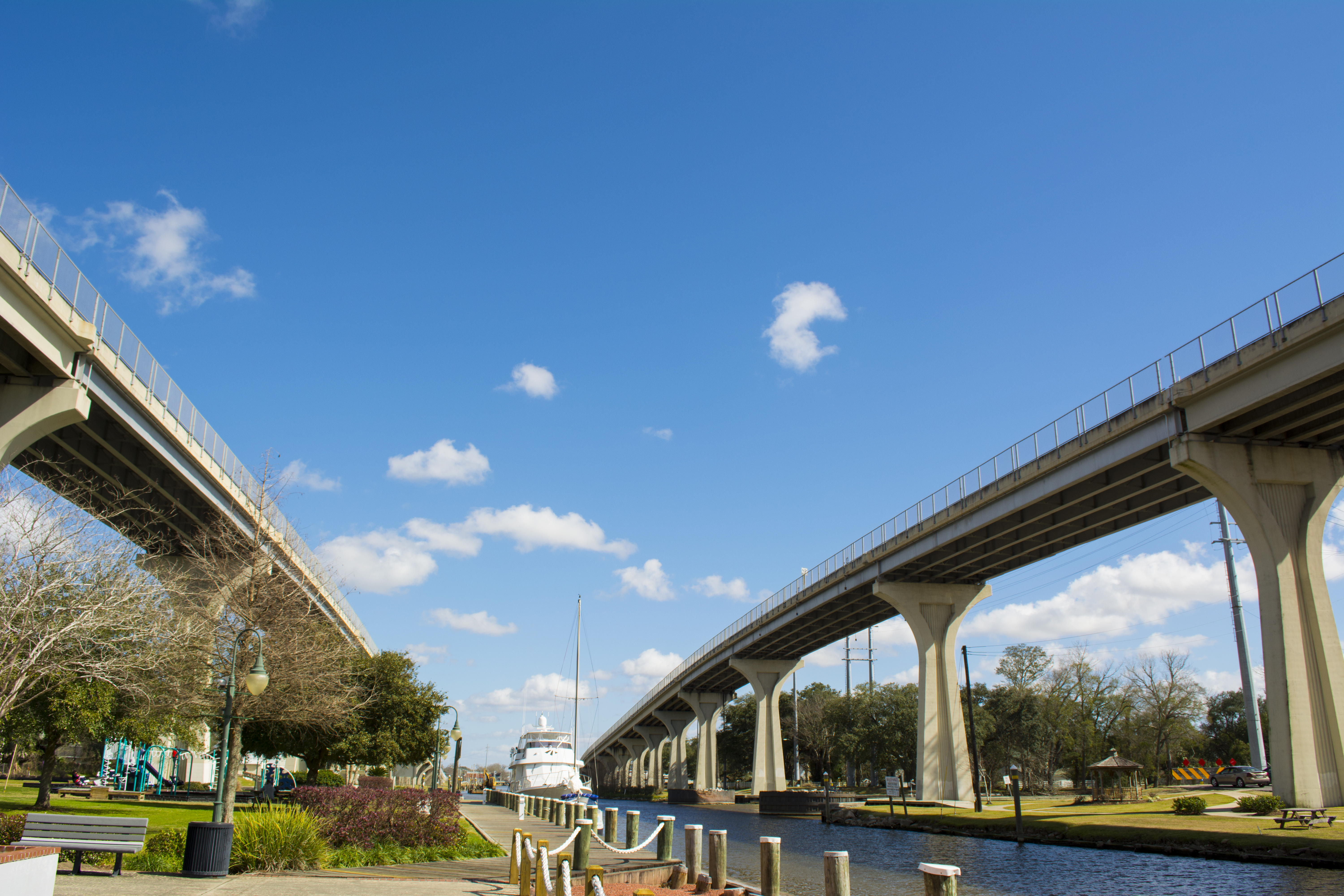 The "Twin Spans" bridge in Houma, LA. View from the marina.